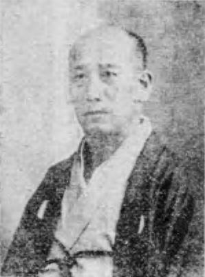 Moemon Ito